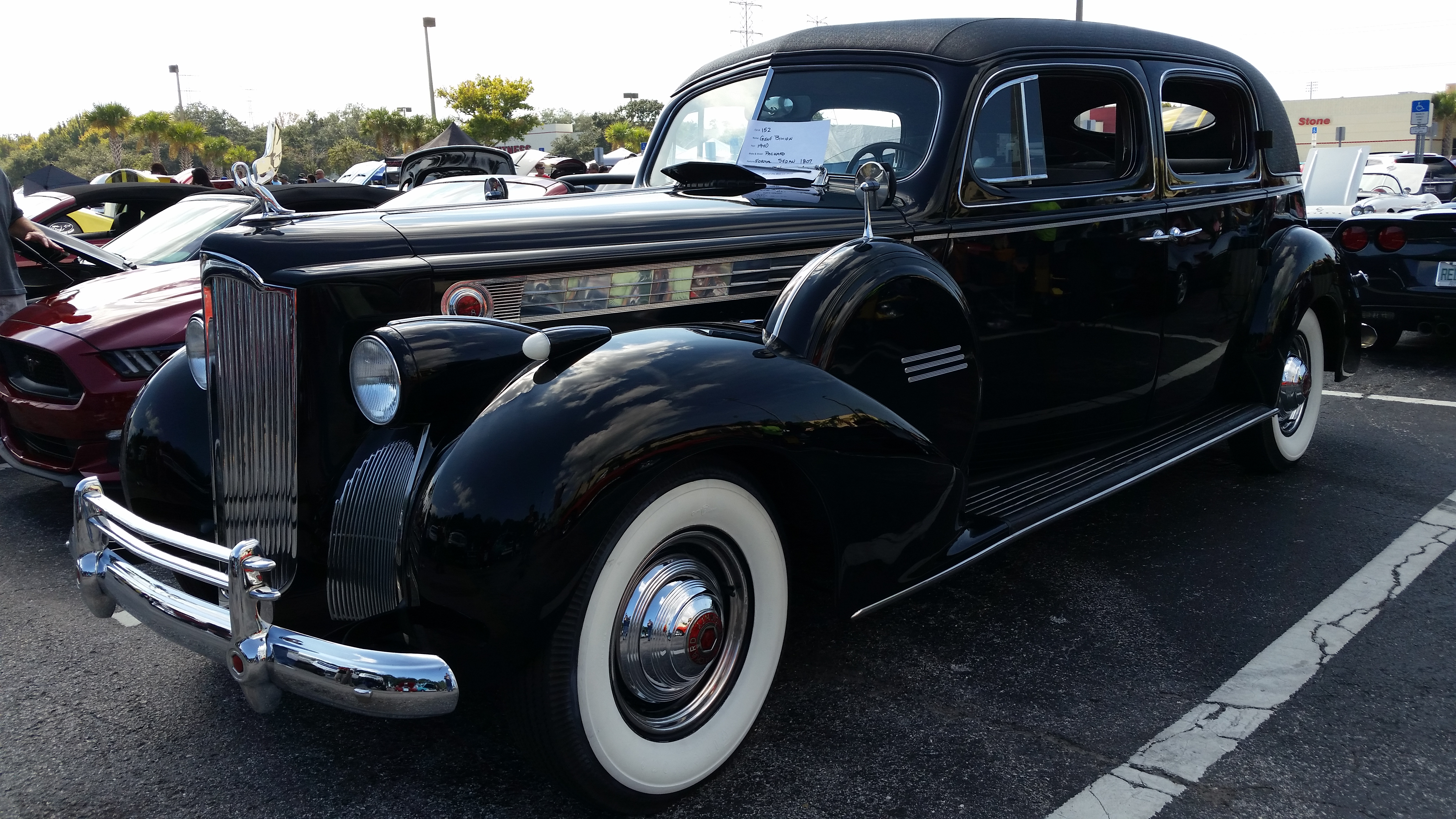 1940 Packard Model 1807 Formal SedanBest of the Best Car Show 2016 Brighthouse Field 601 Old Coachman Rd., Clearwater, FL 33765, US